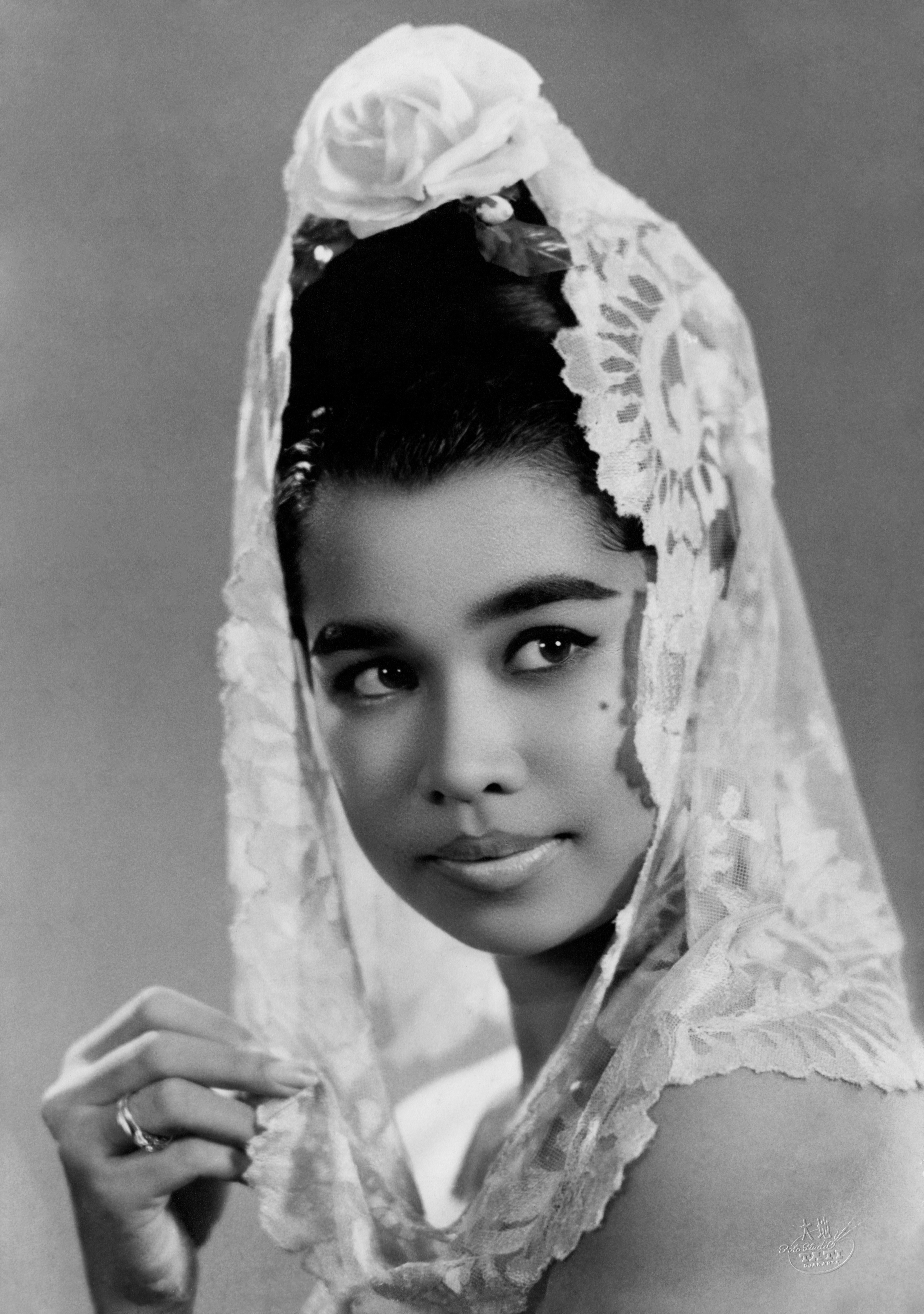 Baby Huwae, c 1963, Tati Photo Studio. Restored from File:Baby Huwae, c 1963, Tati Photo Studio 2 - Before restoration.jpg